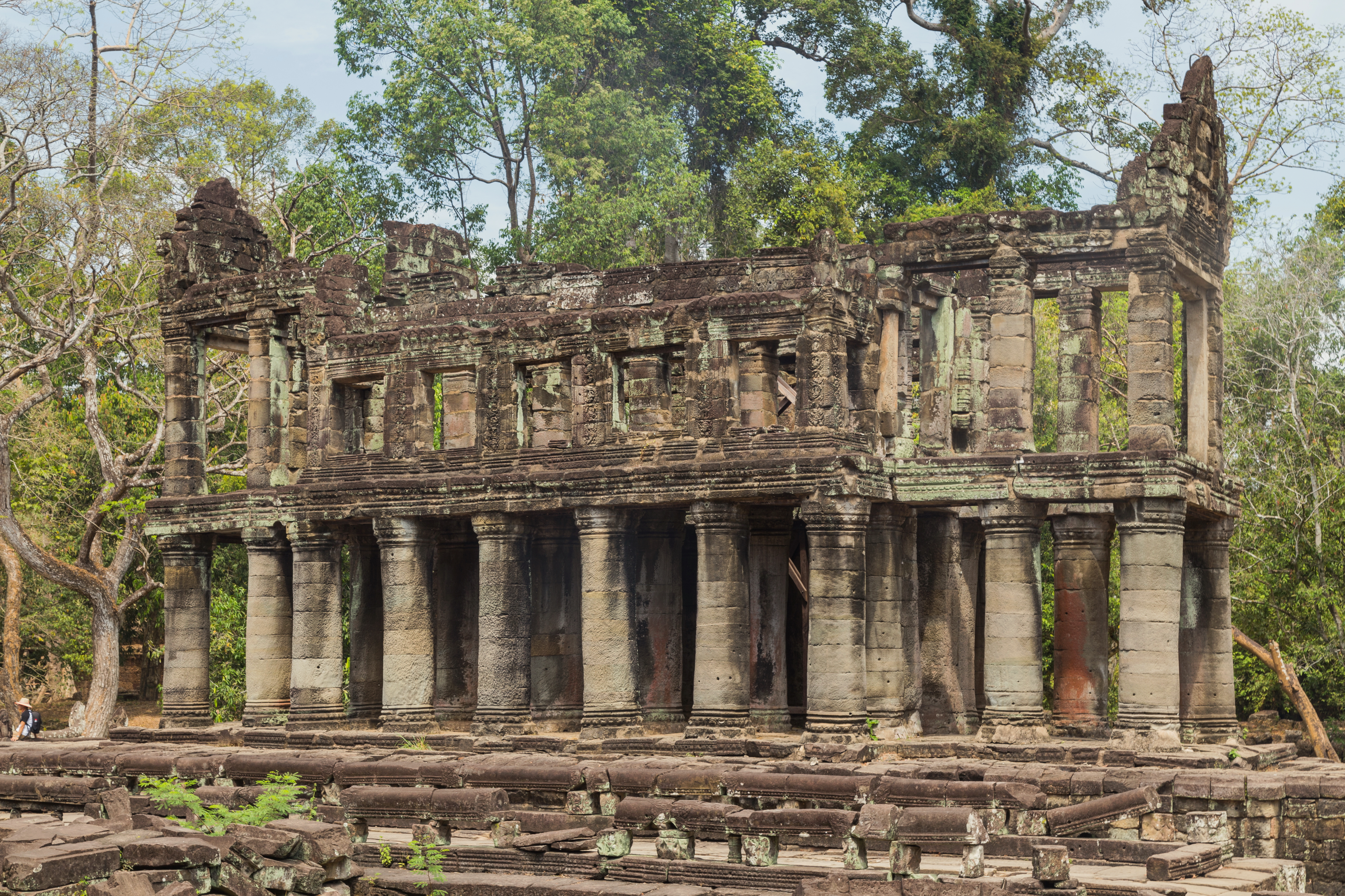 Preah Khan. Siem Reap Province, Cambodia.